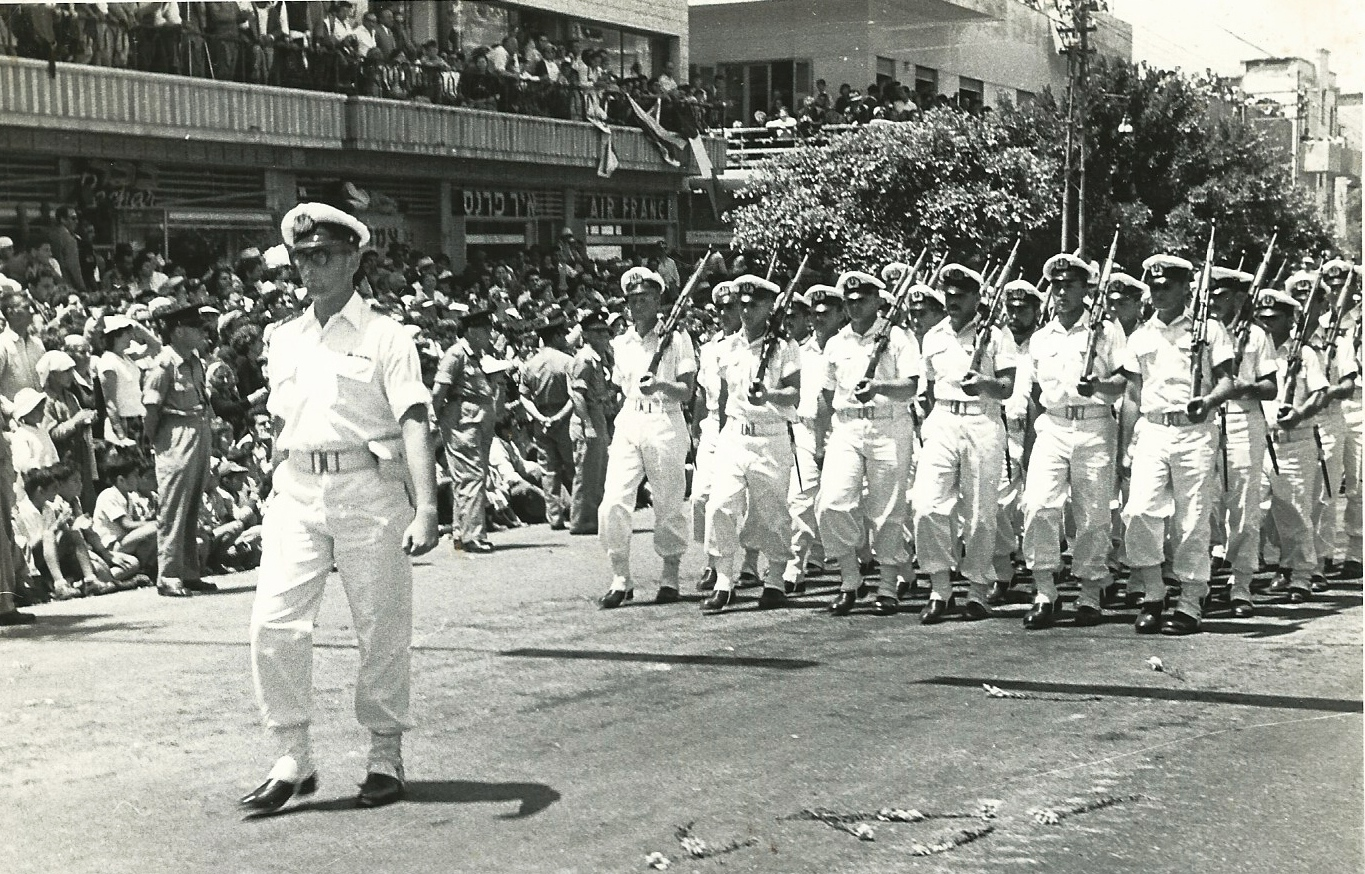 Israel Defense Forces parade